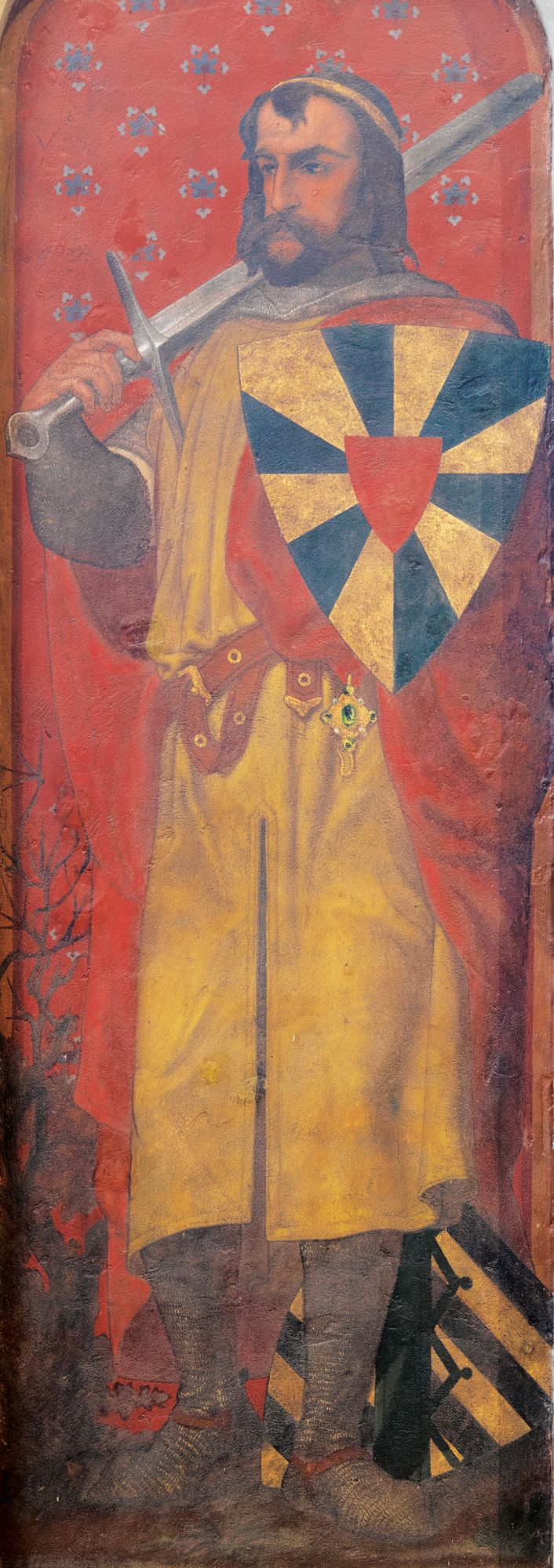 Robert I of Flanders